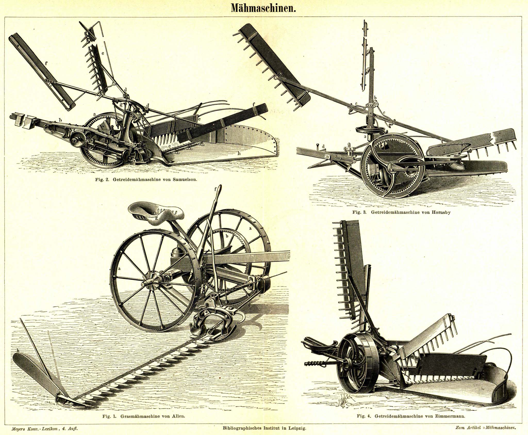 Mower (Fig. 1) and reapers (Fig. 2–4)